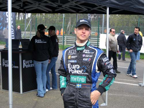 Alx Danielsson, a driver of the World Series by Renault, testing in England.